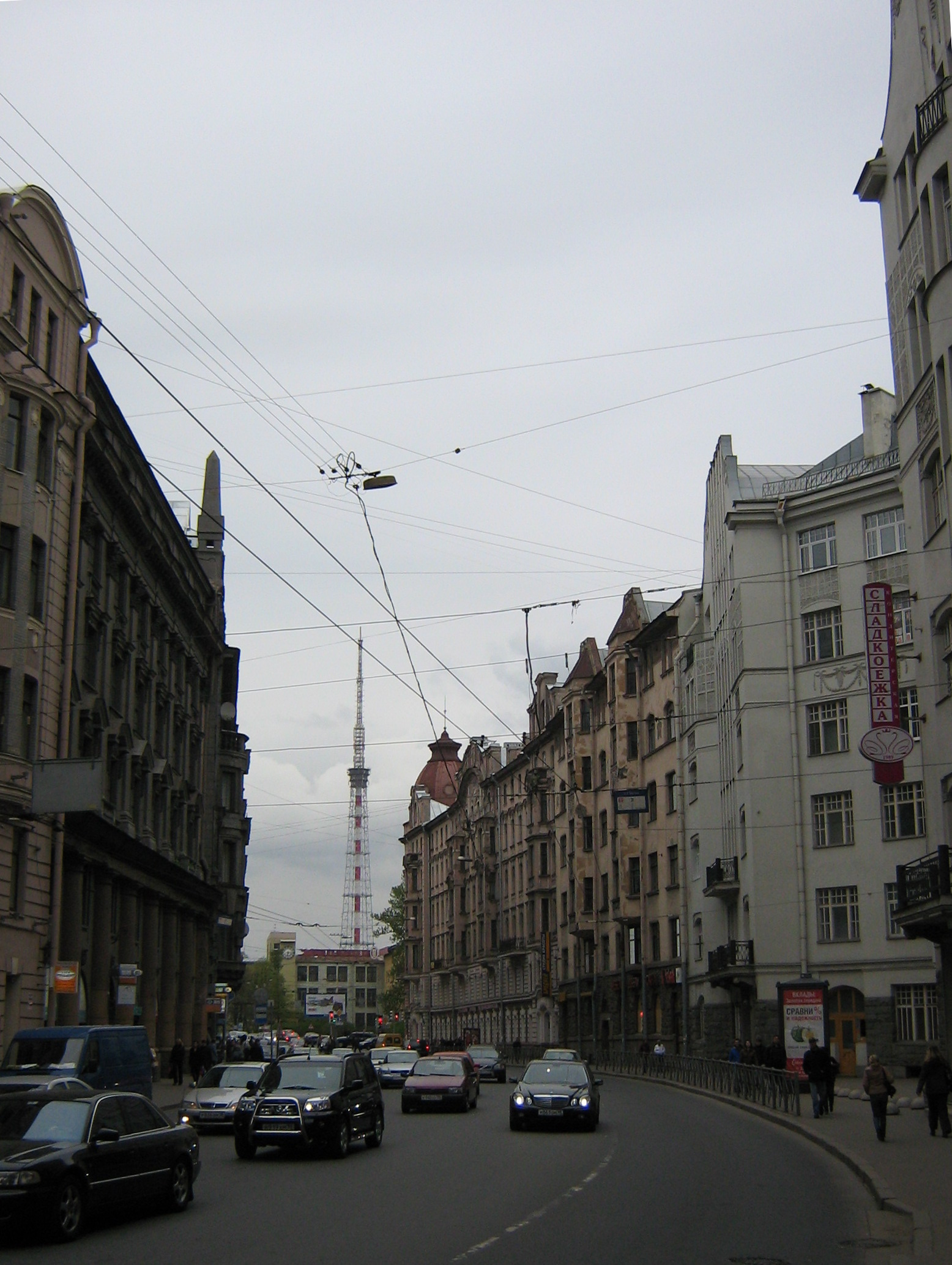 Bolshoy avenue (Petrograd side), the final part near the Karpovka river. To the right: building numbers 79, 81, and 83. To the left: building number 100.